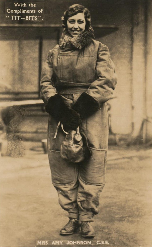 Postcard of Amy Johnson, female pilot